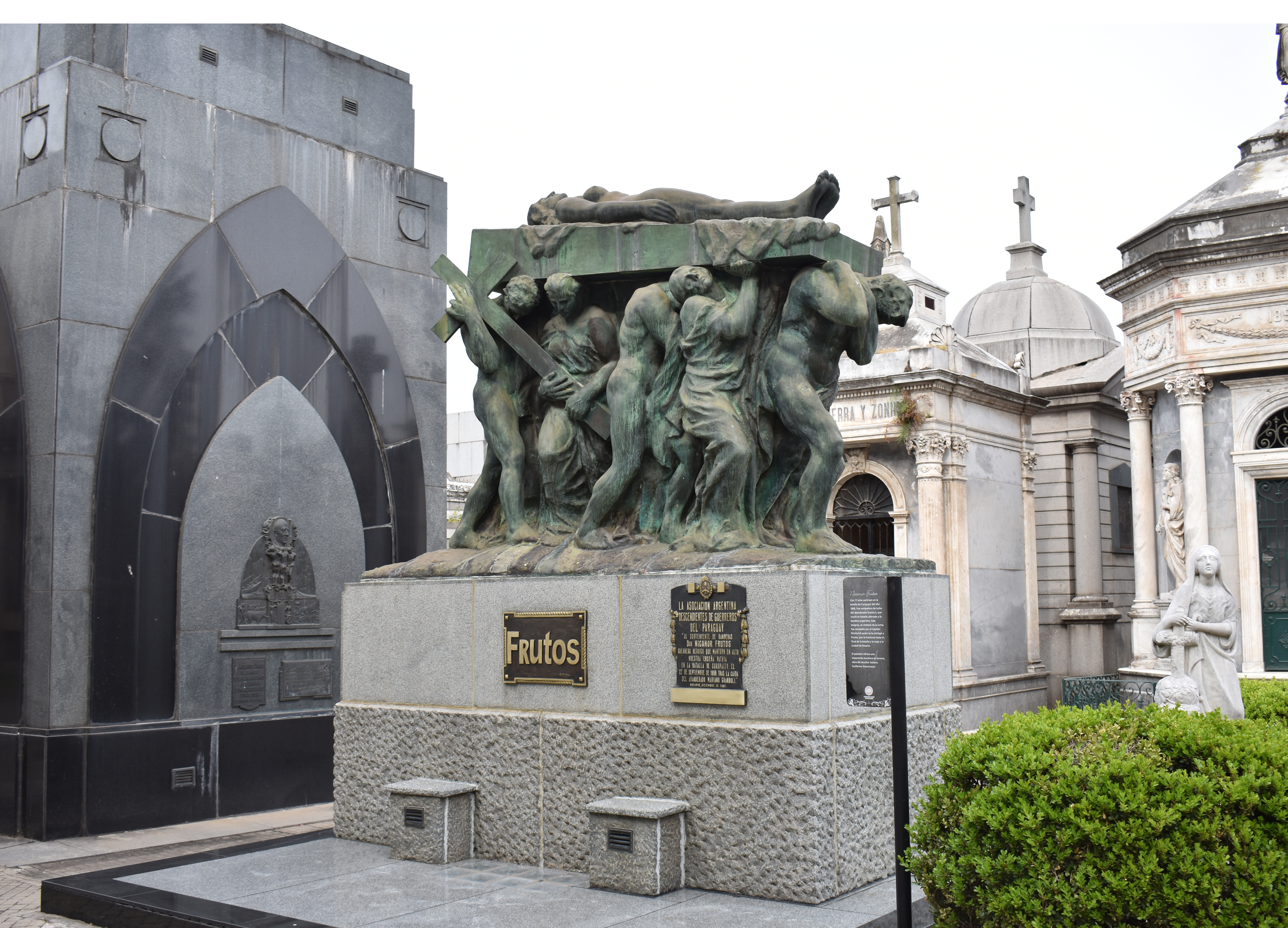 Pantheon for Nicanor Frutos, Cementerio El Salvador, Rosario, Argentina